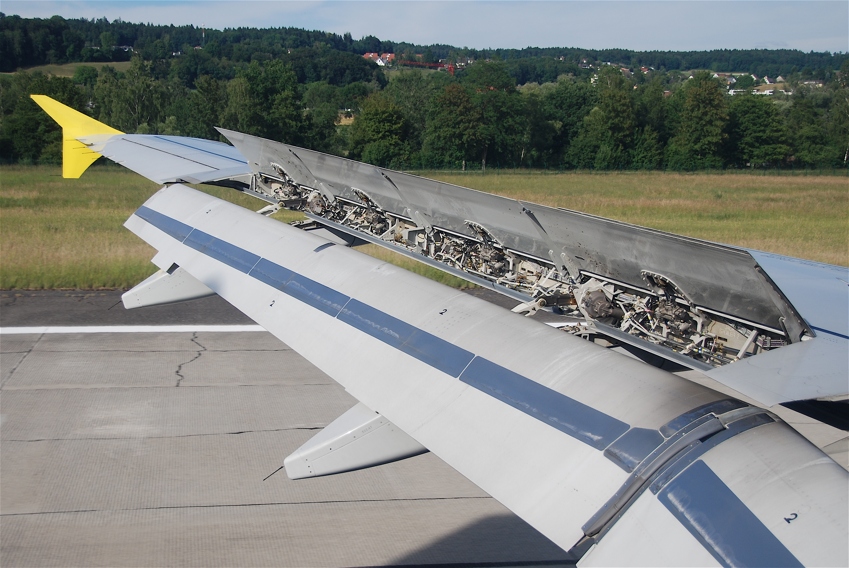 4U683 touching down at ZRH...